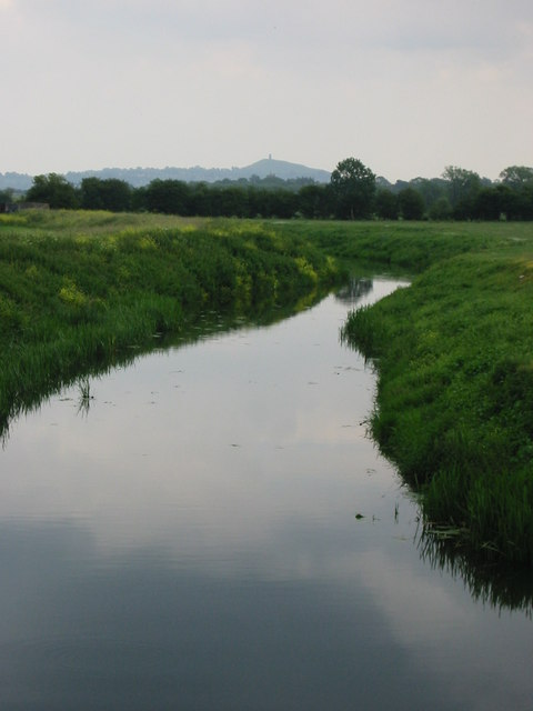 The River Brue, Westhay. Standing on Westhay Bridge looking South-East along the River Brue. Glastonbury Tor ST5138 with the 14th Century St. Michael's Tower can be seen in the far background.